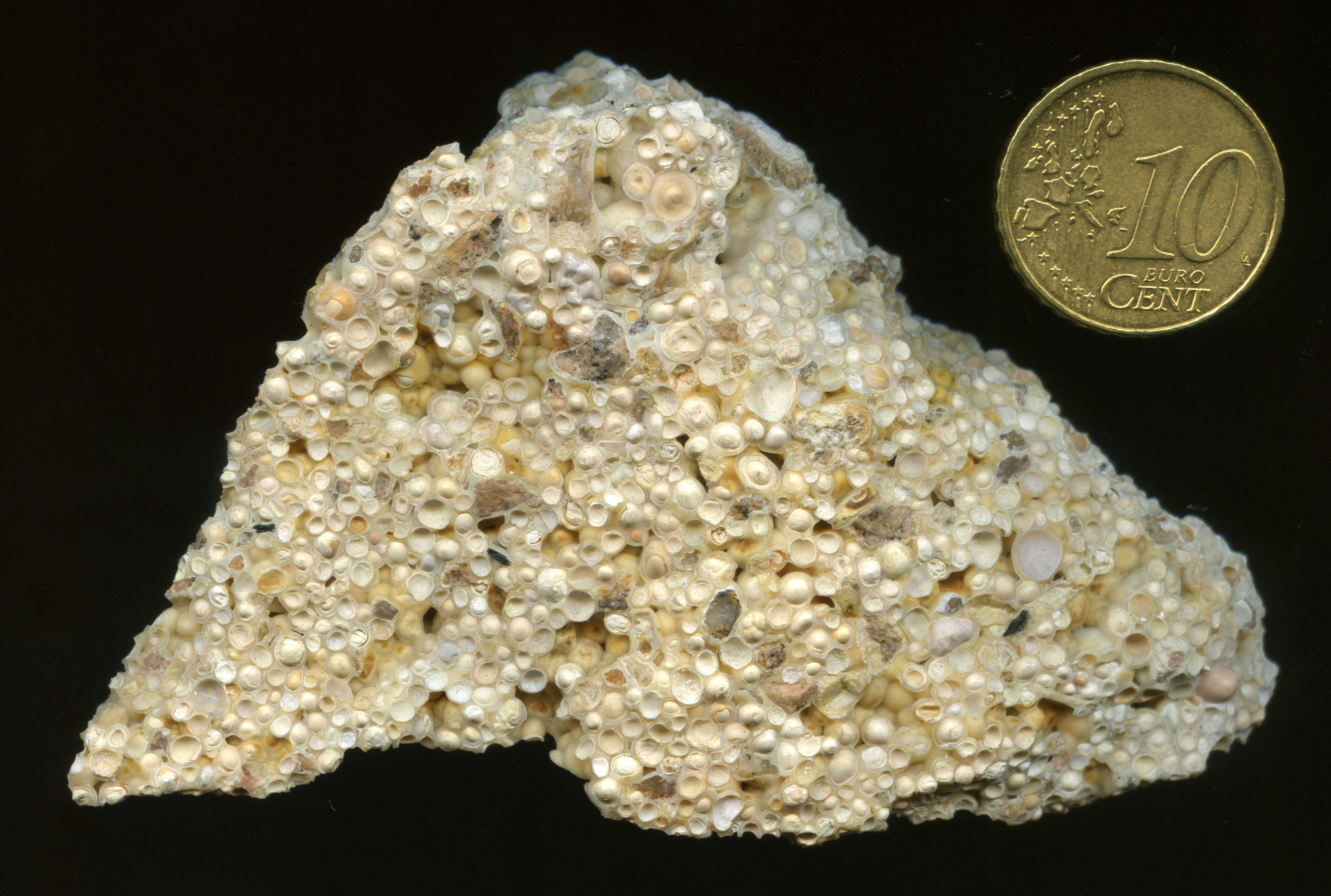 Aragonitic pisolite, Karlovy Vary (Czech Republic)